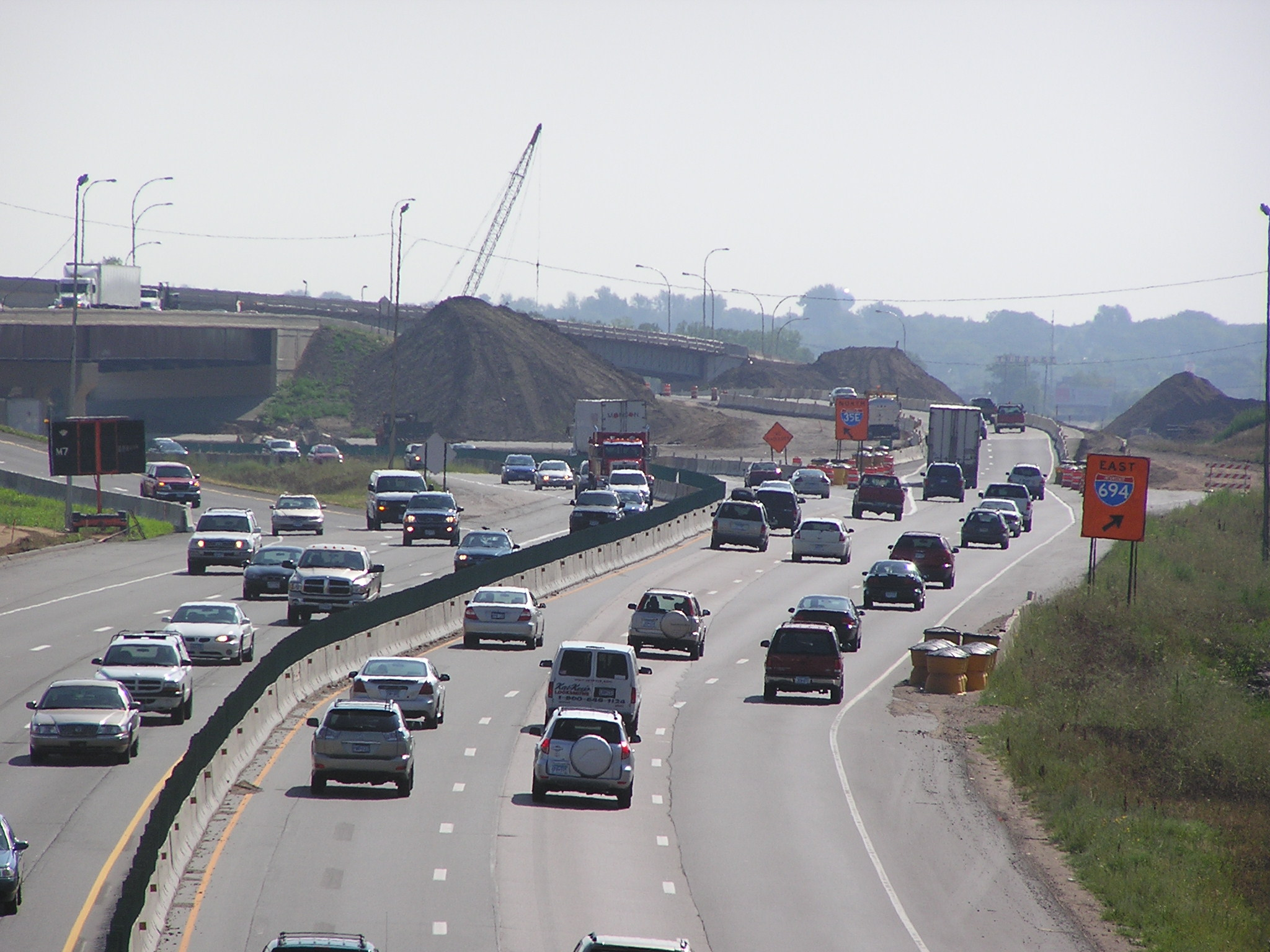 This photo was taken July 30, 2007 by Joseph Mikkelson. In the foreground is the bridge carrying WB Interstate 694 traffic into the commons area, and in the background is the unopened bridge carrying traffic from SB Interstate 35E to EB Interstate 694.